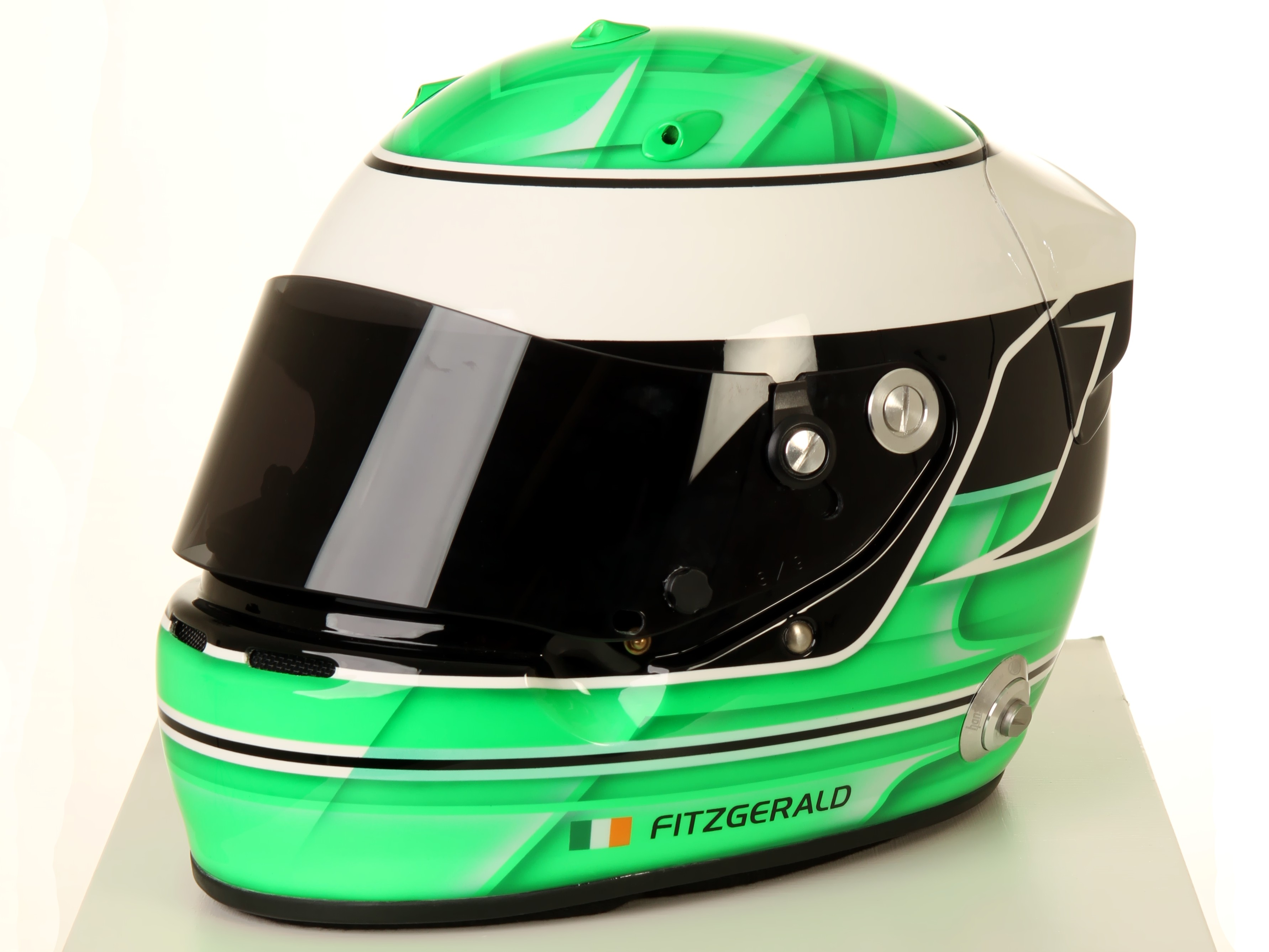 Micheal Fitzgerald Arai motor racing helmet